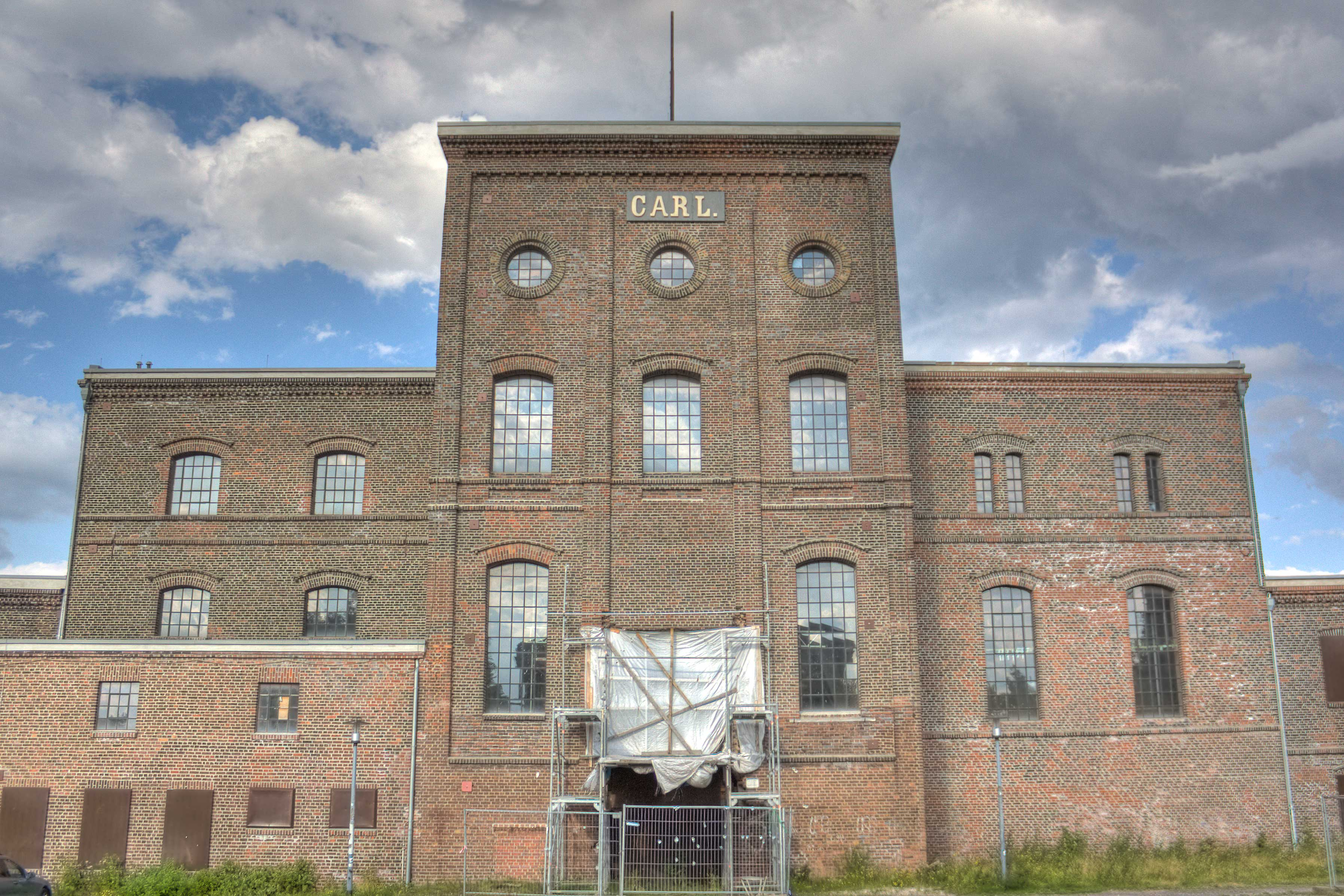 Malakow-Tower of Zeche Carl in Essen-Altenessen after restoration